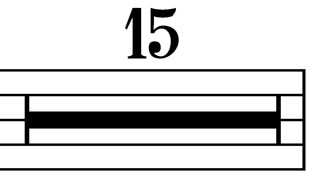 Picture of a 15-bar multirest